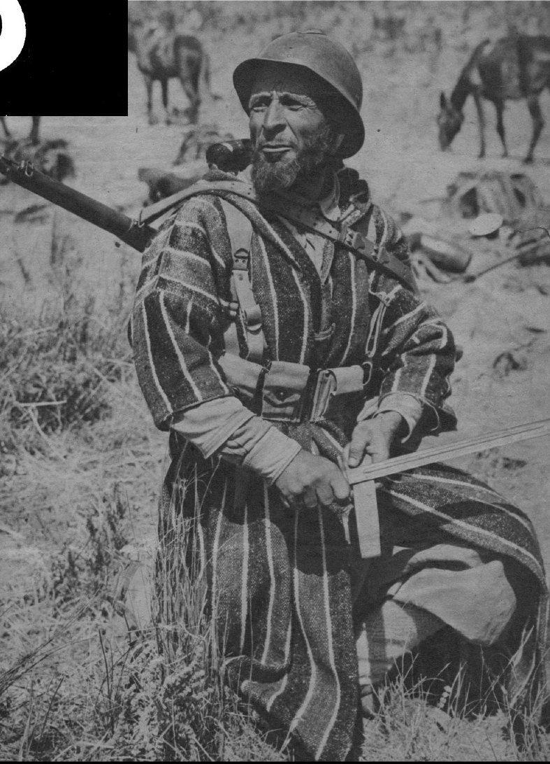 Cropped from the article in Yank , the Army Weekly magazine. Original caption: "A colorful Moroccan Goum sharpens an American bayonet. His rifle is also American, his helmet, French."